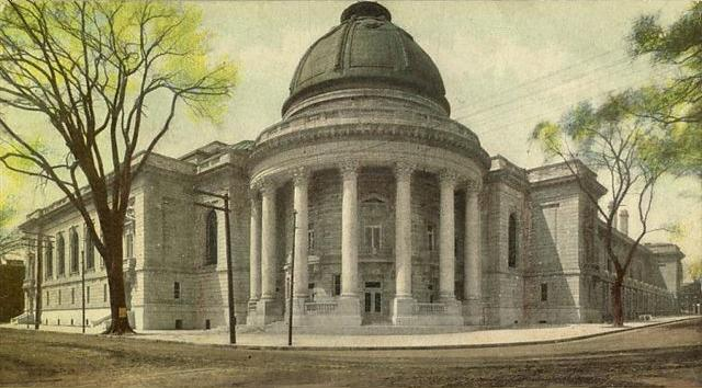 Woolsey Hall, Yale University; from a c. 1905 postcard.